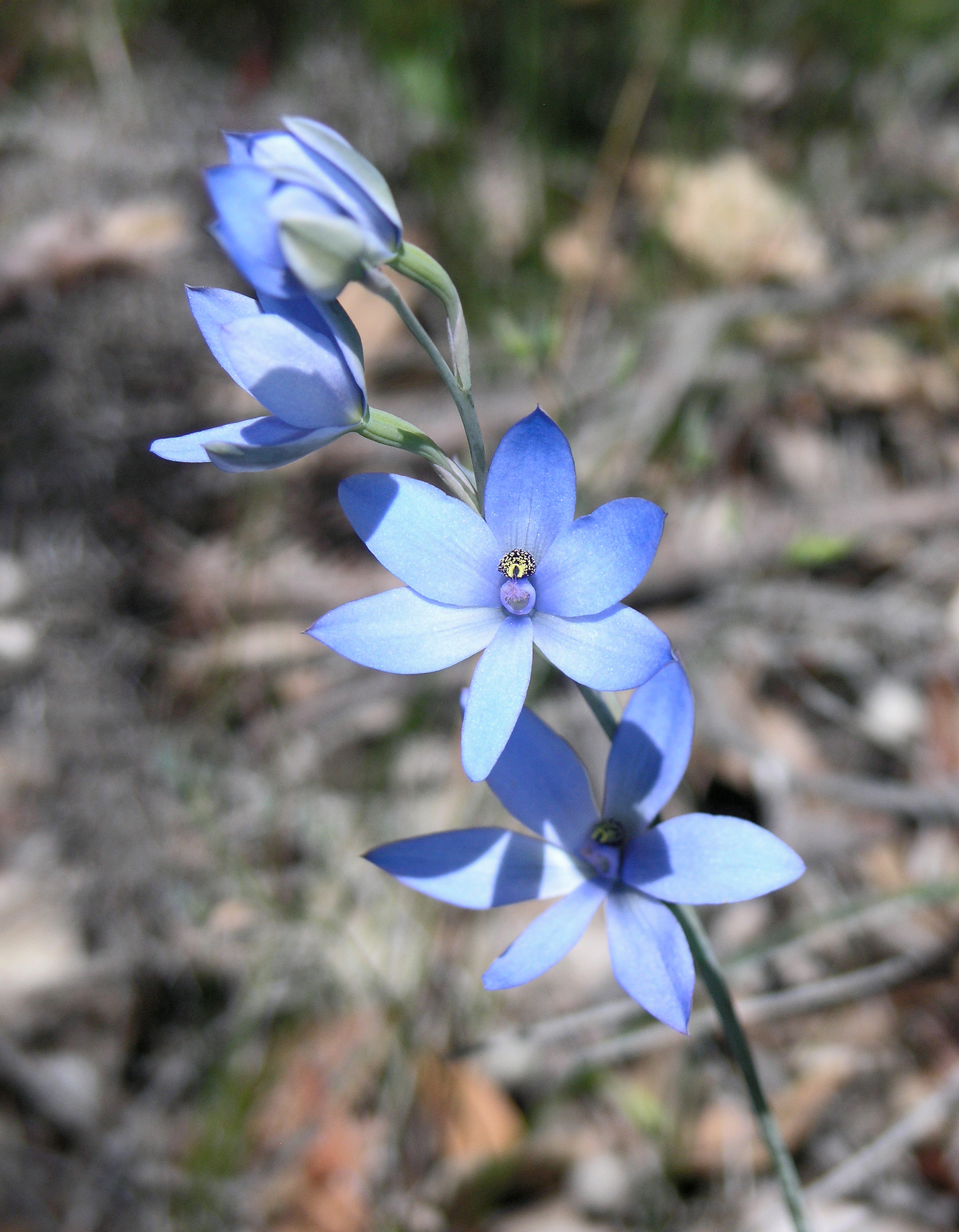 Unknown flower taken on a bush walk, Jarrahdale, Perth, Western Australia. I will post more information about the flower if I can find out more. Thelymitra crinita